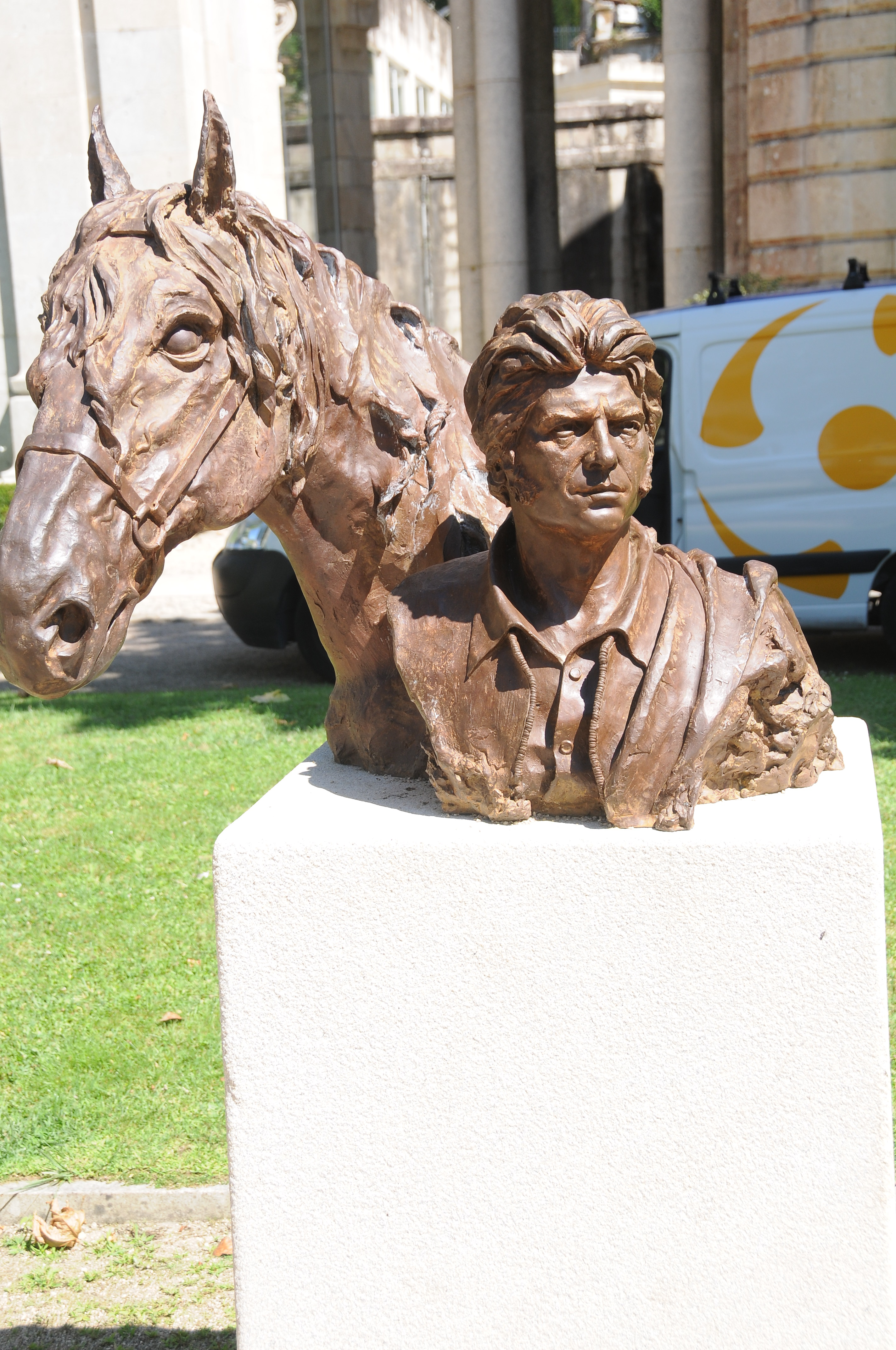 Sancho Gracia bust in Mondariz-Balneario, Spain in 2015